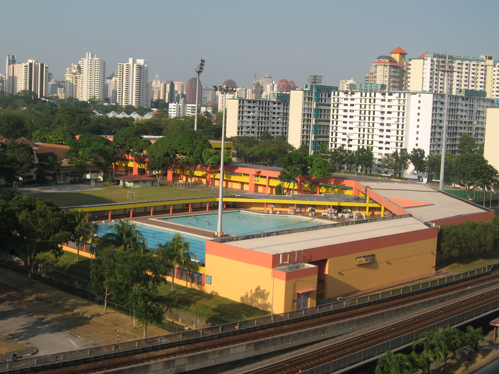 Deleta Swimming Complex.